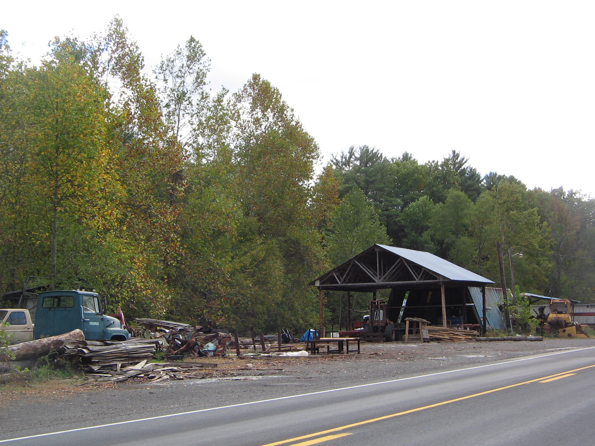 Sawmill between Pennsylvania Route 287 and the Second Fork Larrys Creek, Mifflin Township, Lycoming County, Pennsylvania, United States